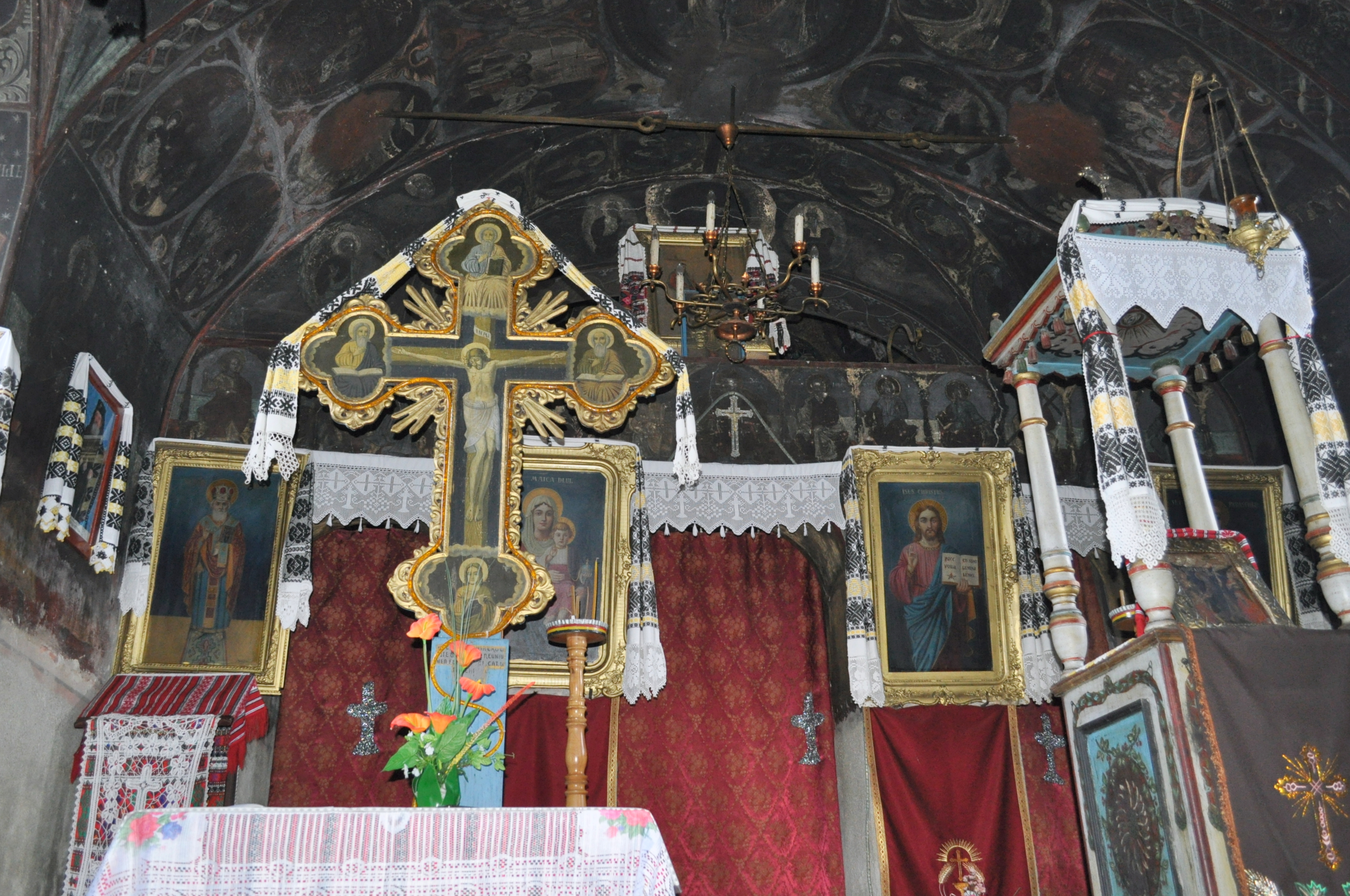 ”The Saint Pious Parascheva” church of Țichindeal, Sibiu county